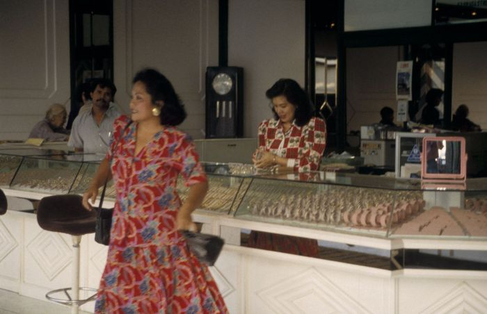 Jewellery shop